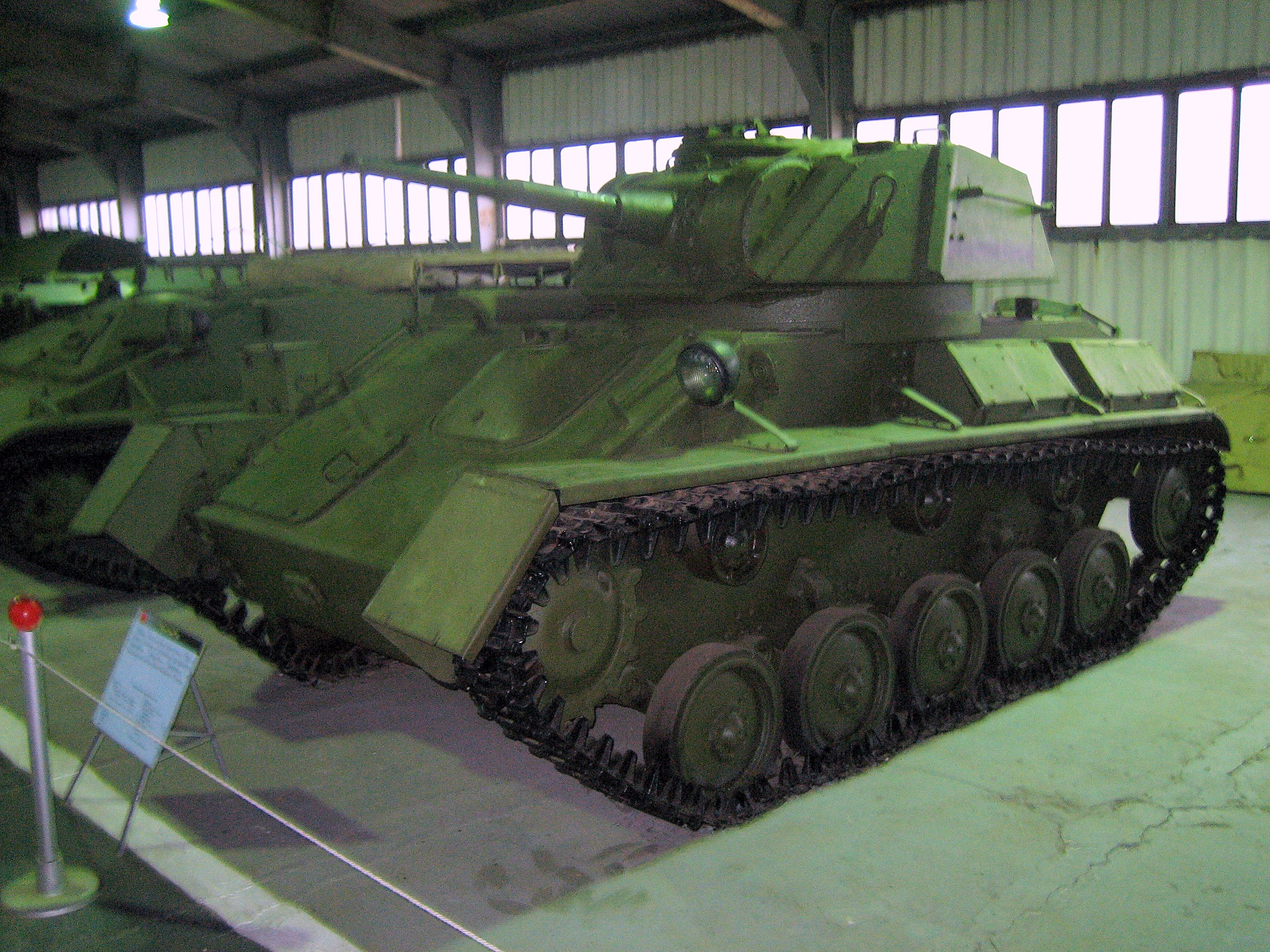 Soviet light infantry tank T-80, displayed in Kubinka Tank Museum. Photo taken on December 9, 2006. Source: Photo by me, User:Saiga20K.